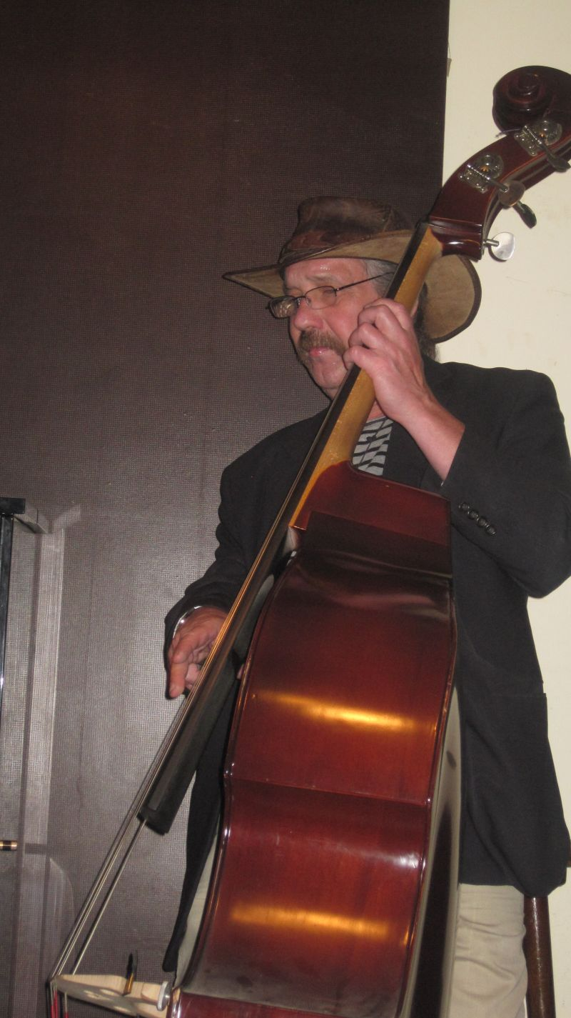 American double bassist Ed Schuller 2011.